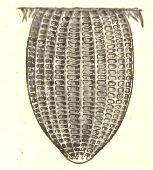 Egg of Danaus plexippus